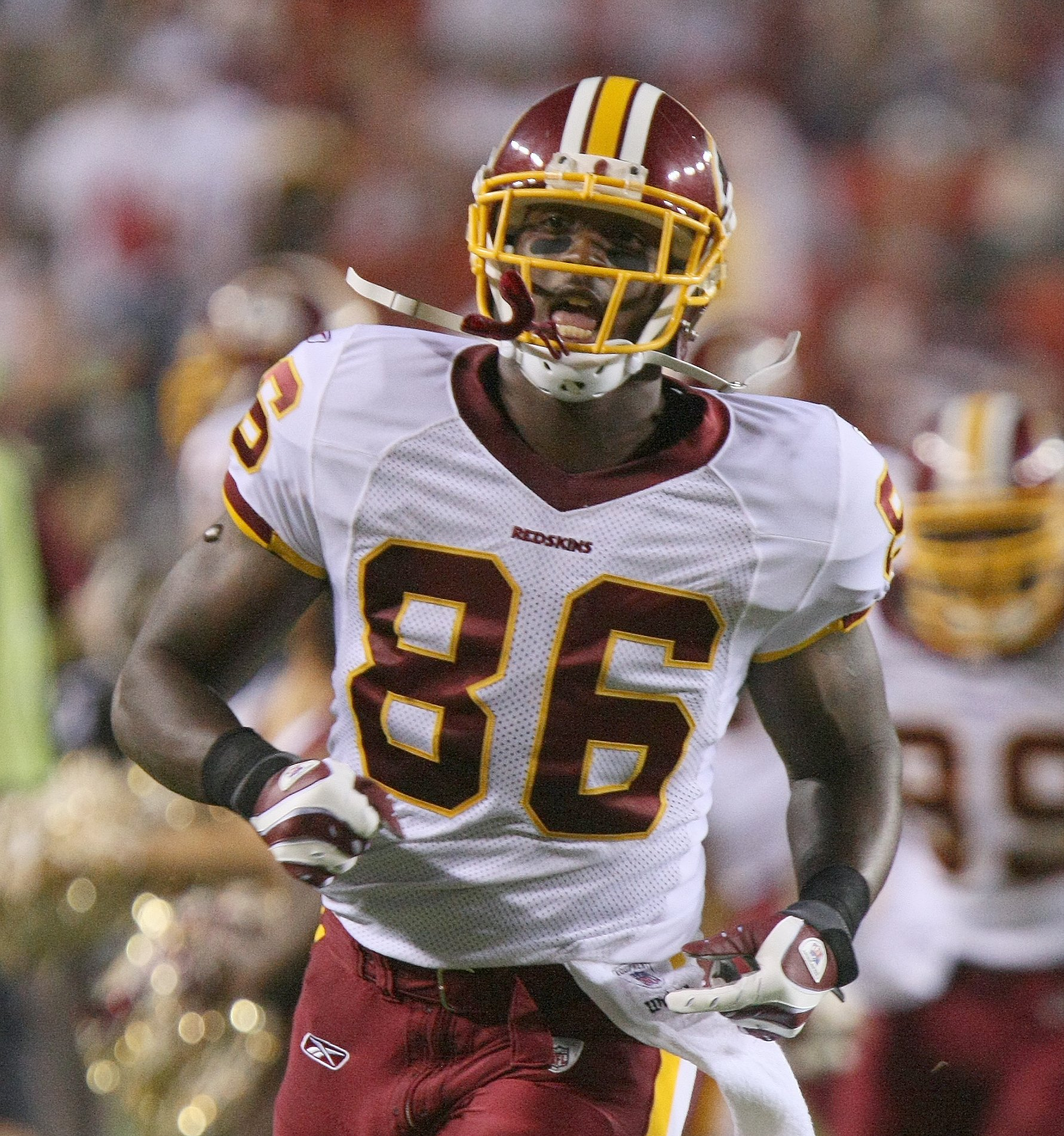 Fred Davis in the Redskins preseason game against the New England Patriots on August 28, 2009